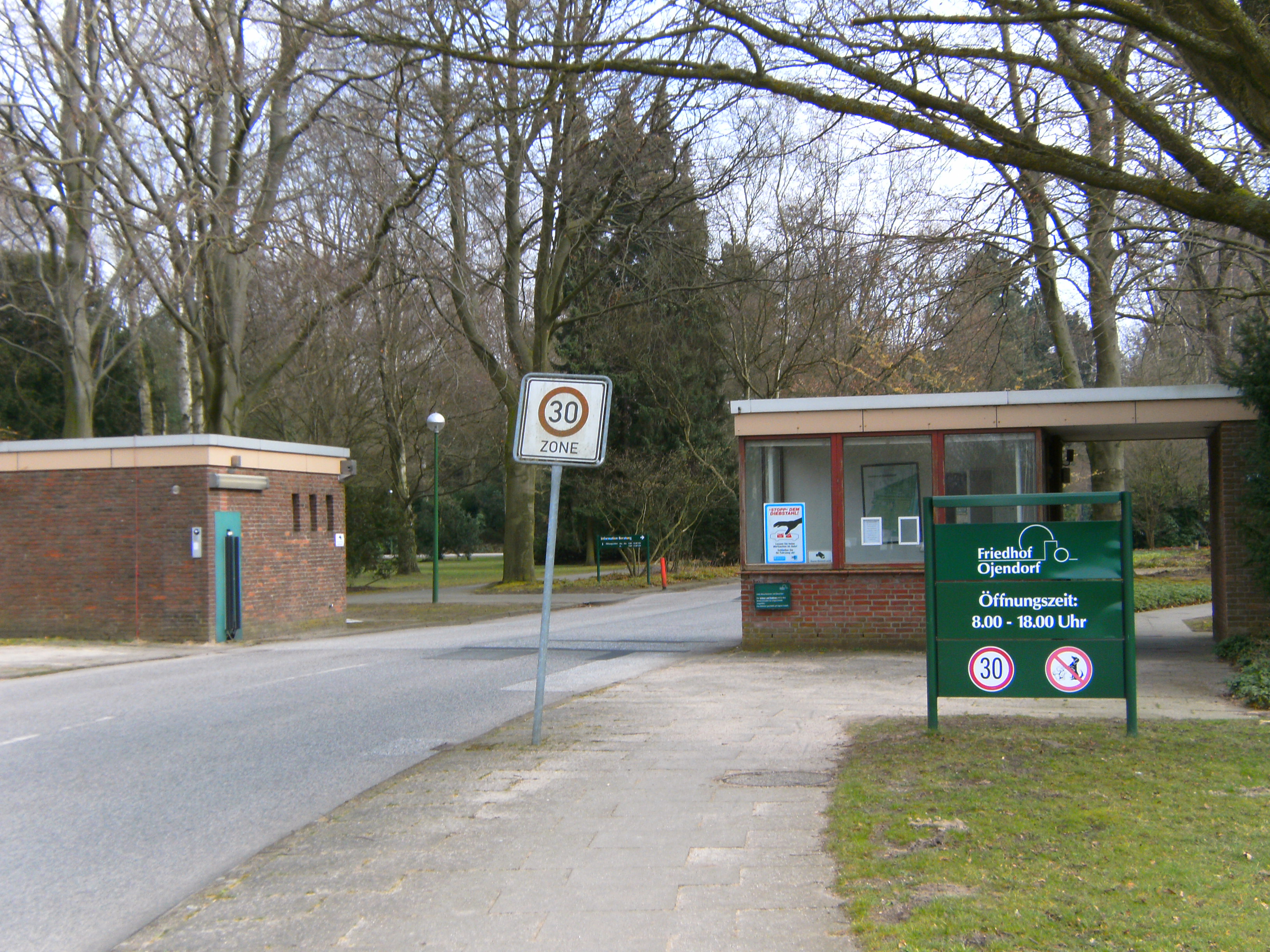 Main entrance to the Friedhof Öjendorf (cemetery) via Manshardtstraße in Hamburg.